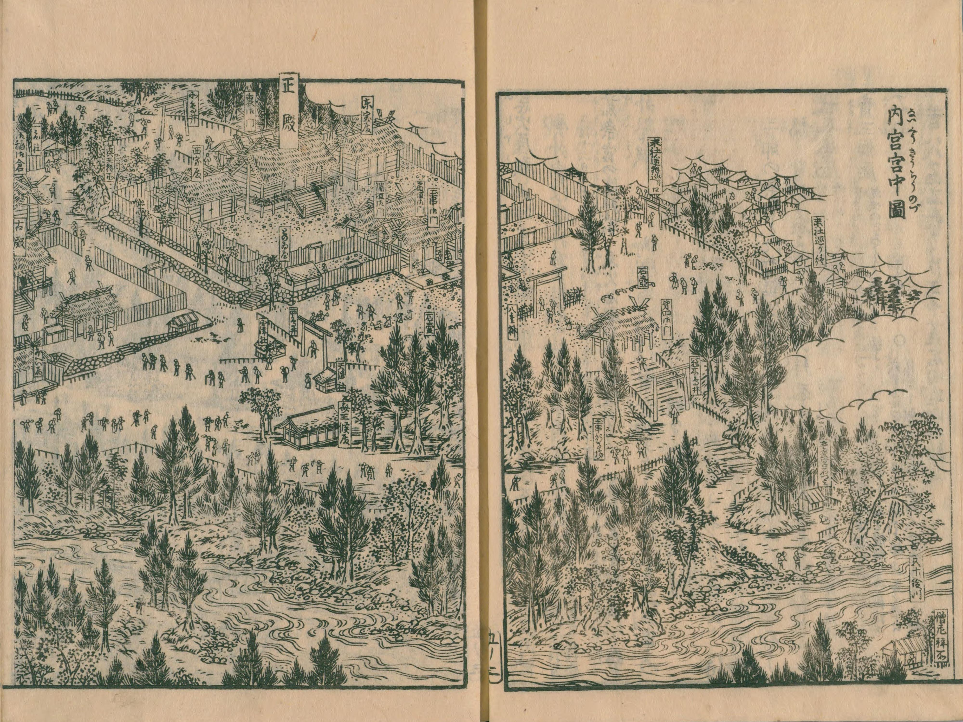 Naikū of Ise Grand Shrine in Ise sangū Meisho zue vol. 5 (book.1)